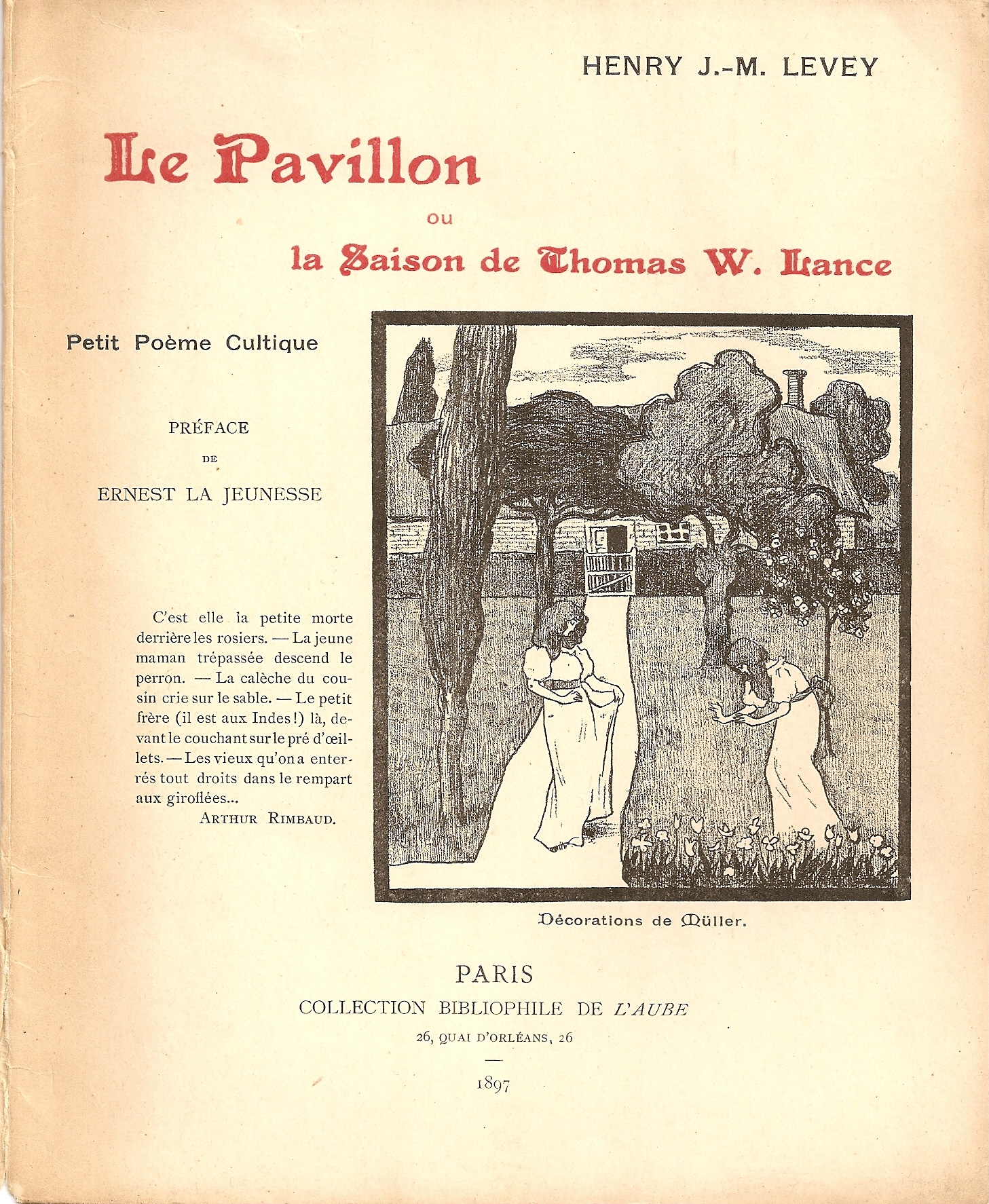 Cover page of "Le Pavillon ou La Saison de Thomas W. Lance", of poet Henry Jean-Marie Levet, illustrations of Muller (Alfredo Müller), 1897